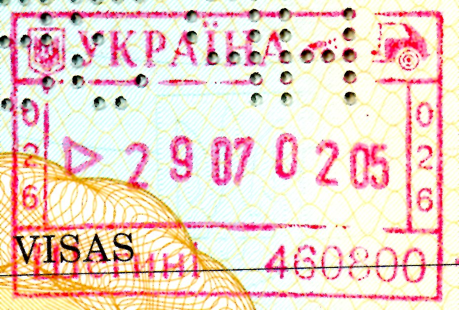 Shegyni border stamp